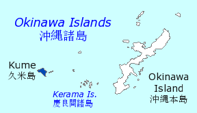 The location of Kumejima Town in Okinawa.